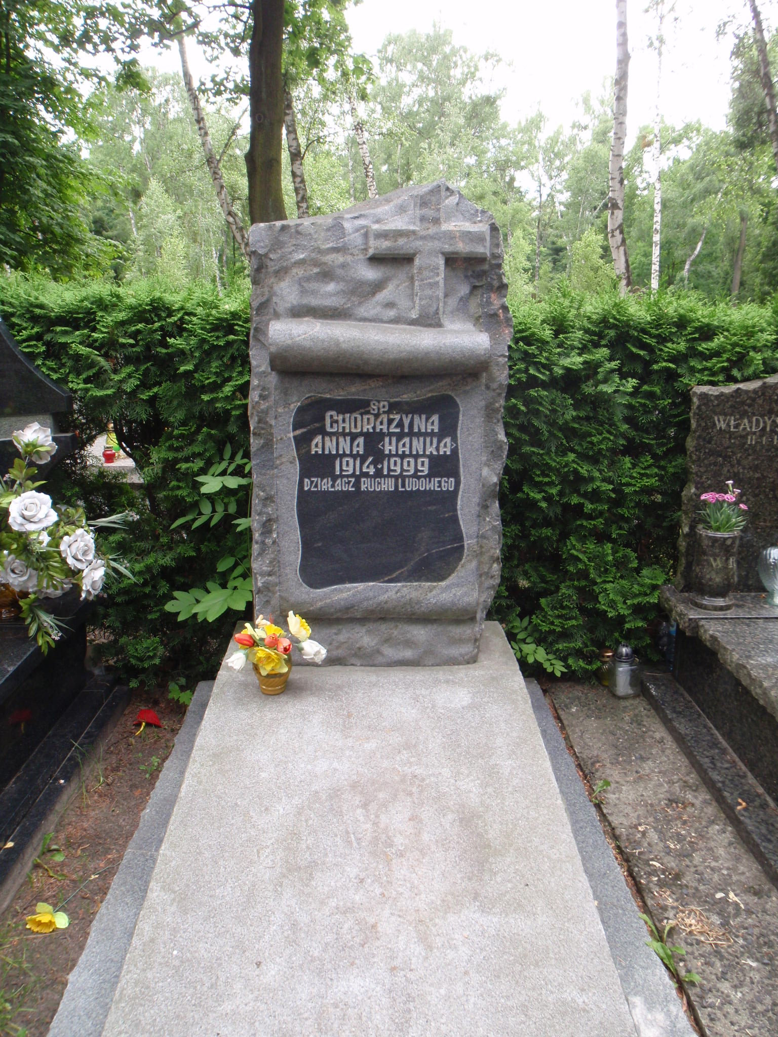 Grave of Hanna Chorążyna